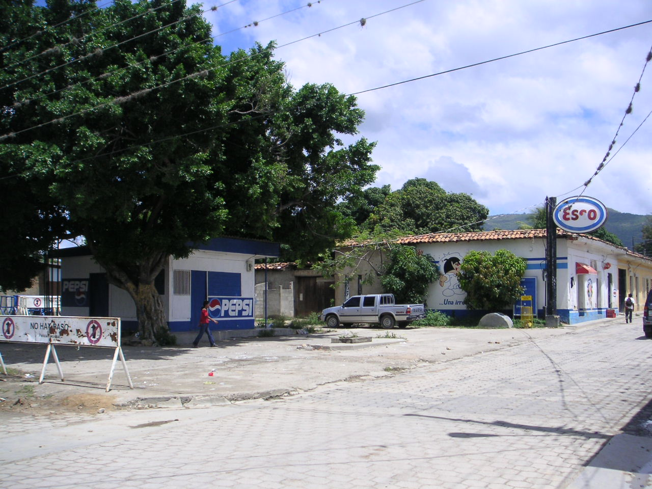 Ocotal, Nicaragua. Photo: Soman